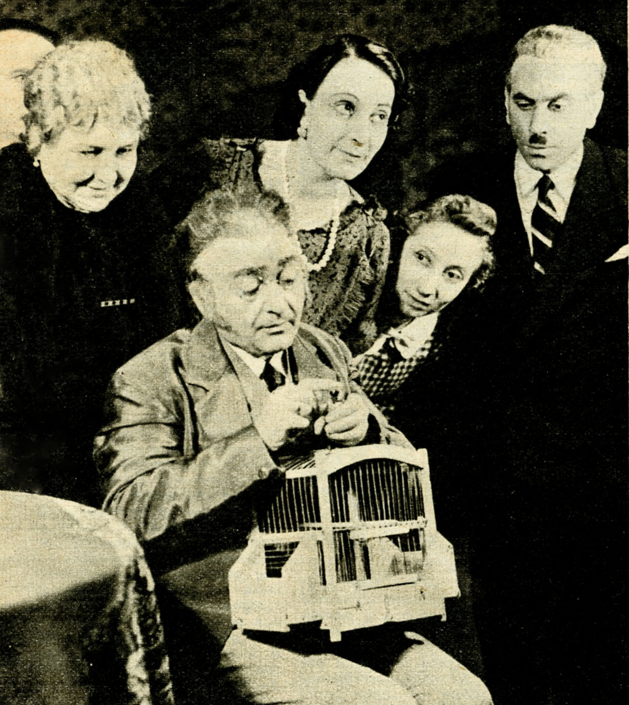 photo of Gilberto Govi on stage, from the magazine Excelsior (1938)